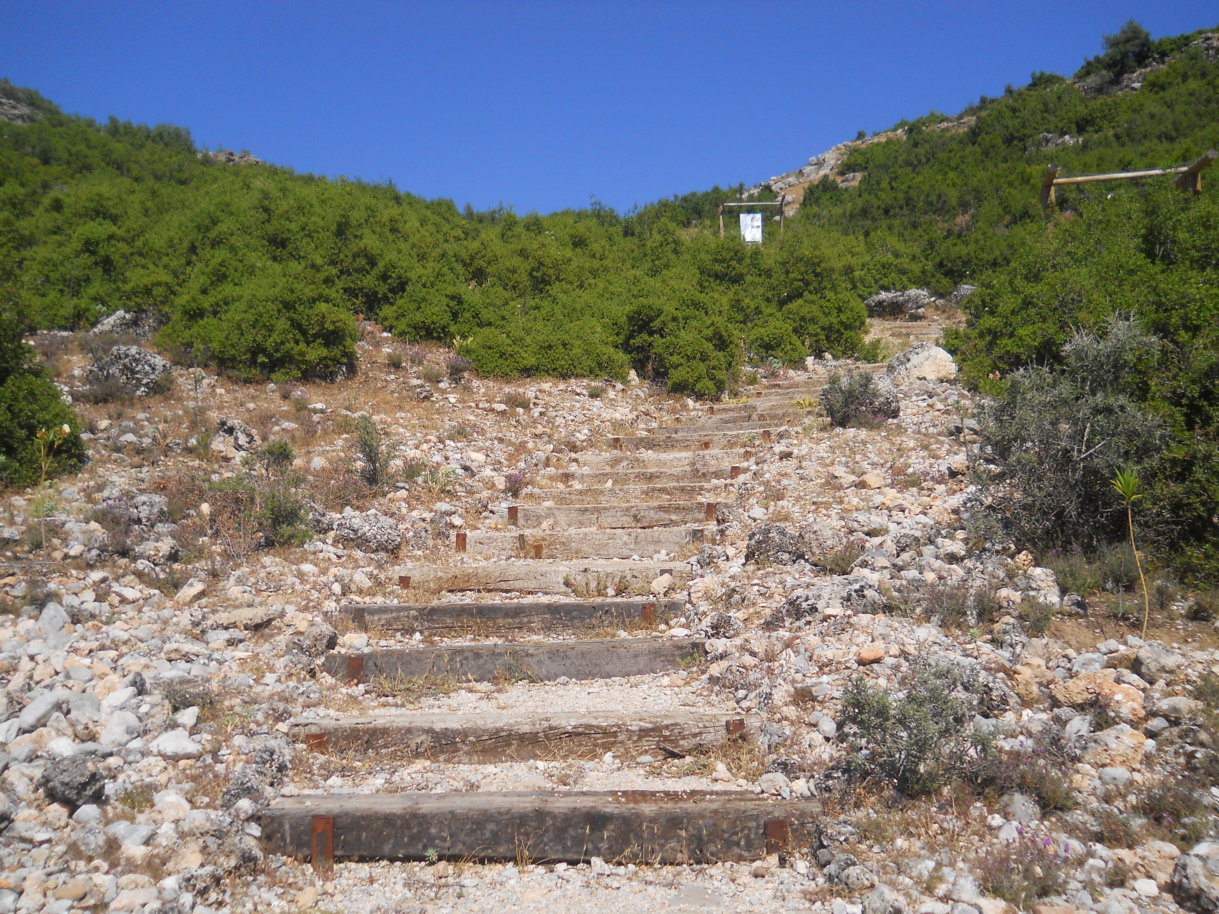 Carian Trail Muğla, Turkey (